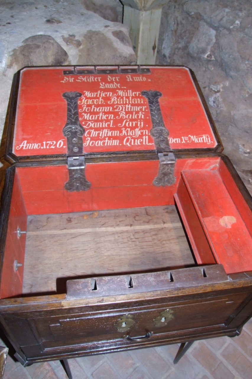 Craft's ark of the year 1726 from the Ventspils castle